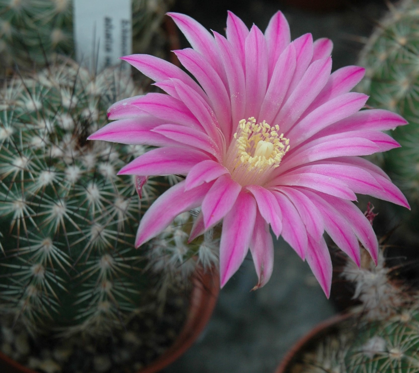 Flower of Echinocereus adustus ssp. roemerianus